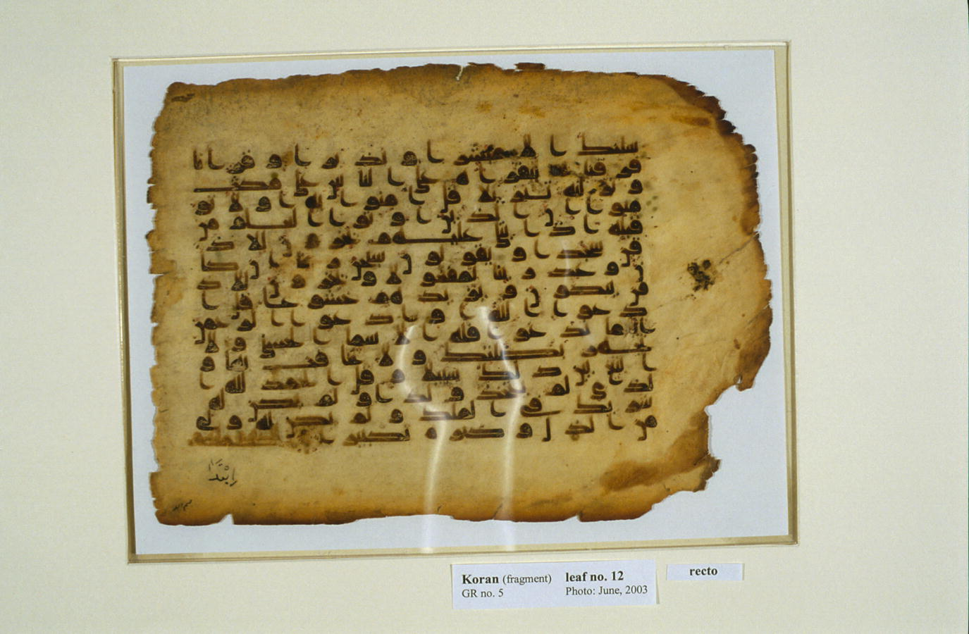 Verses 105-111 of the 17th chapter of the Qur'an entitled Surat al-Isra' (The Night Journey) or Surat Bani Isra'il (The Children of Israel). The text's Kufi script is related to the D.I style typical of horizontal Qur'ans produced during the 9th century.